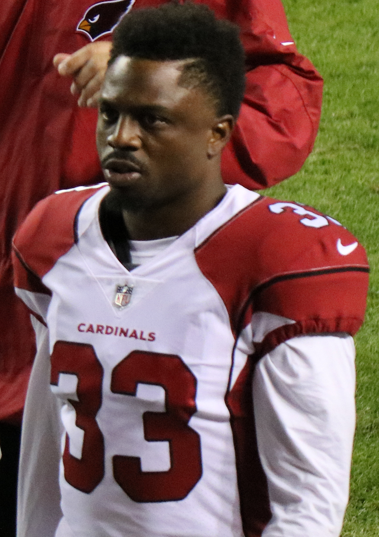 Kerwynn Williams, a player on the National Football League.